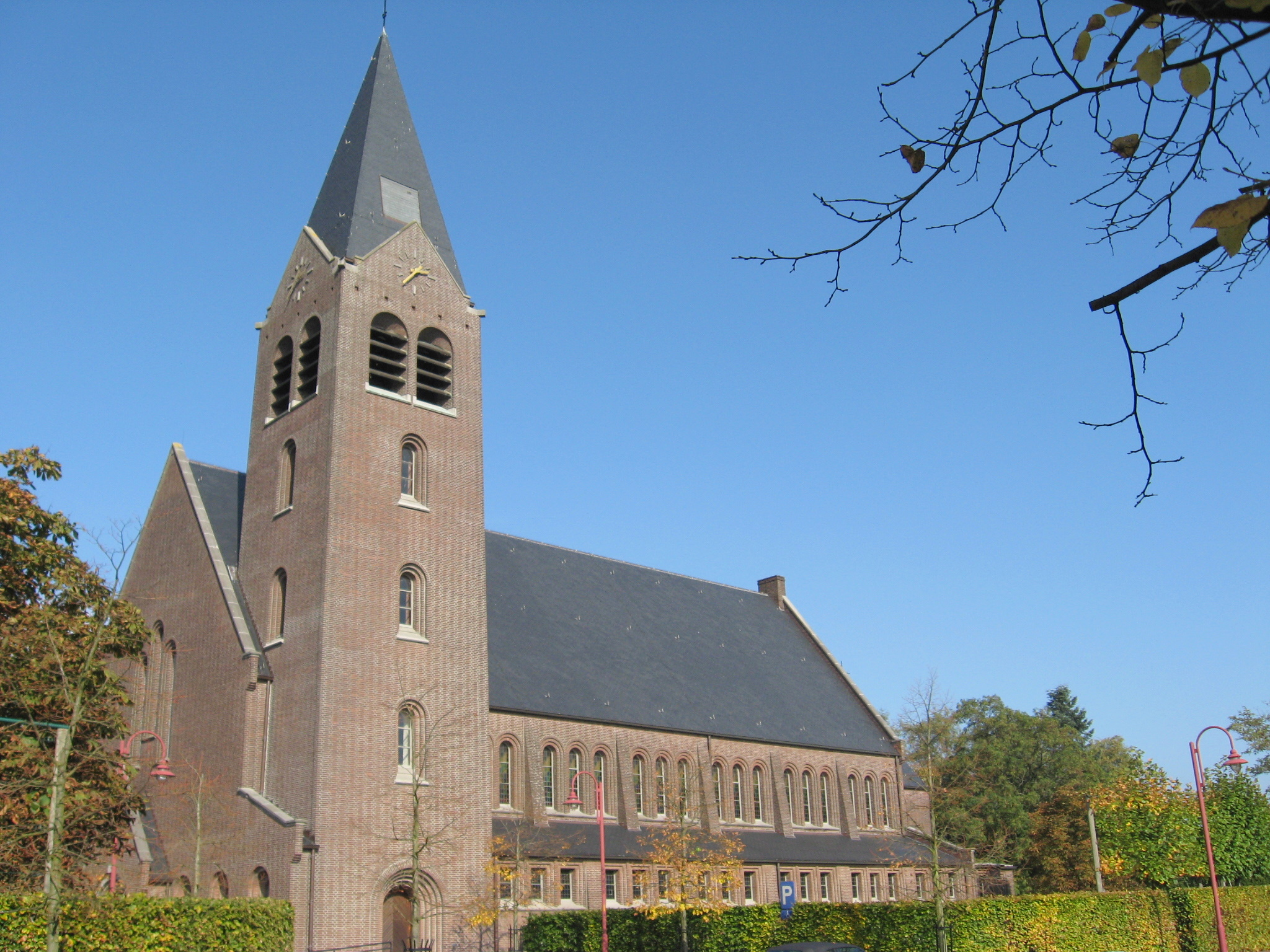 Church of the Holy Heart in Winkelomheide, Geel, Antwerp, Belgium